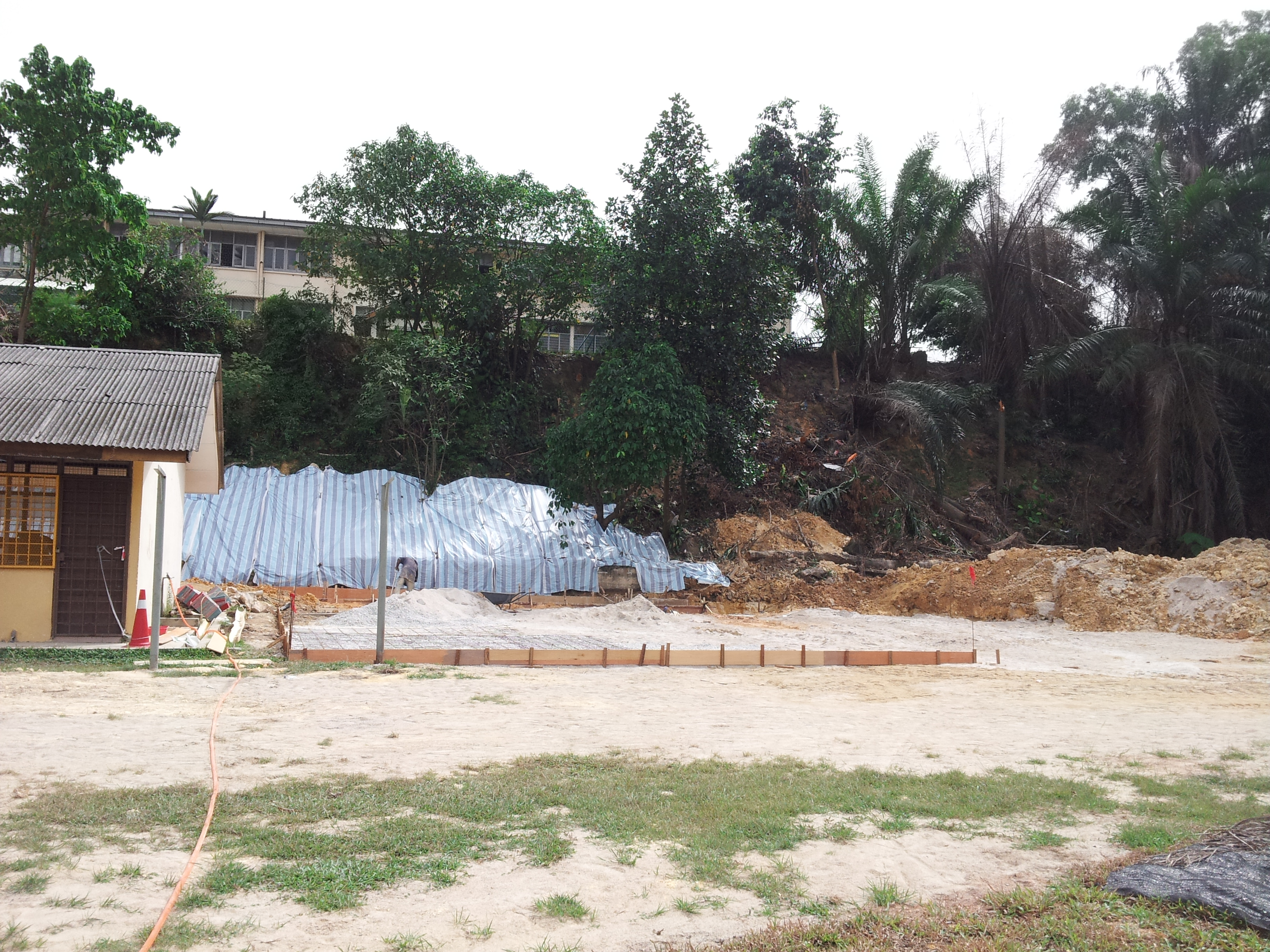 KH Labs 2 - Area beside current labs (June 2013 - upgrading works in progress)